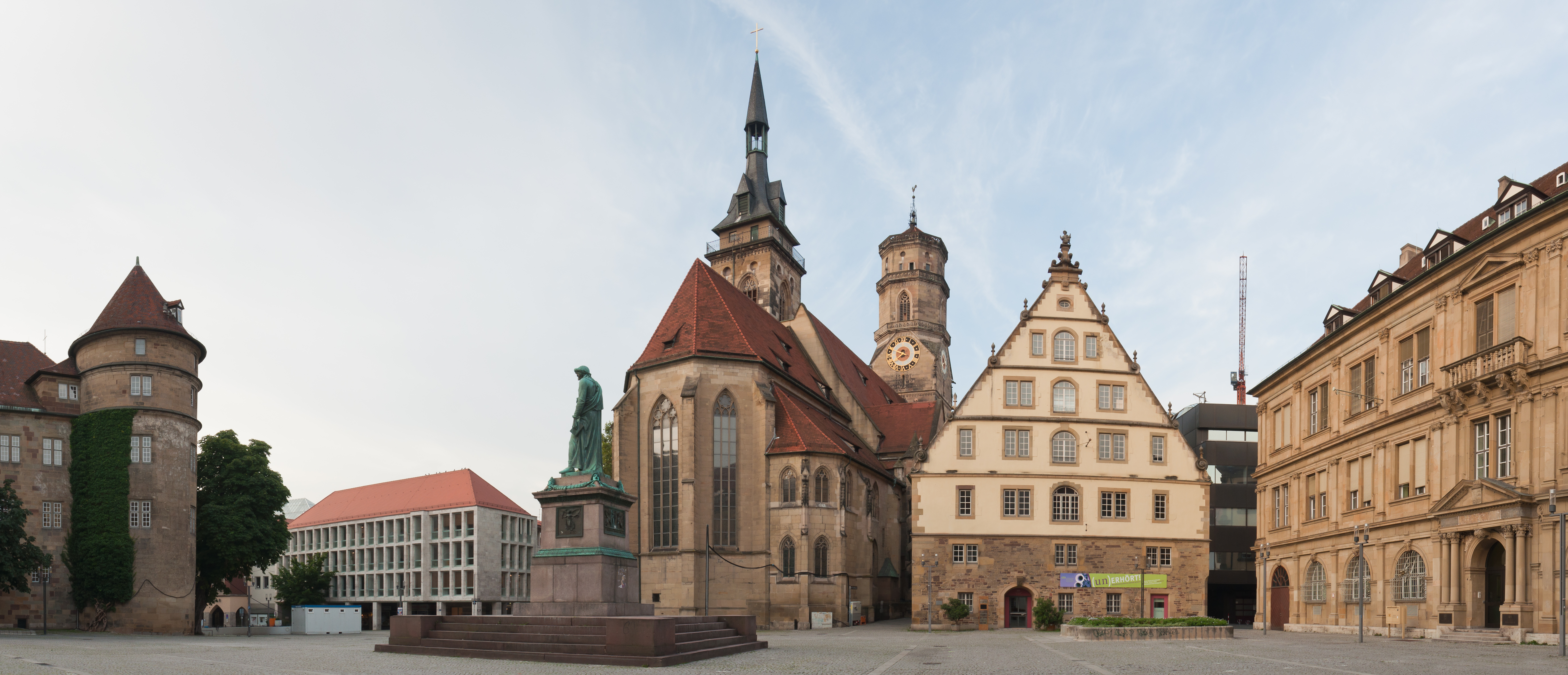 Schillerplatz (Schiller square) and the Protestant Stiftskirche in Stuttgart.